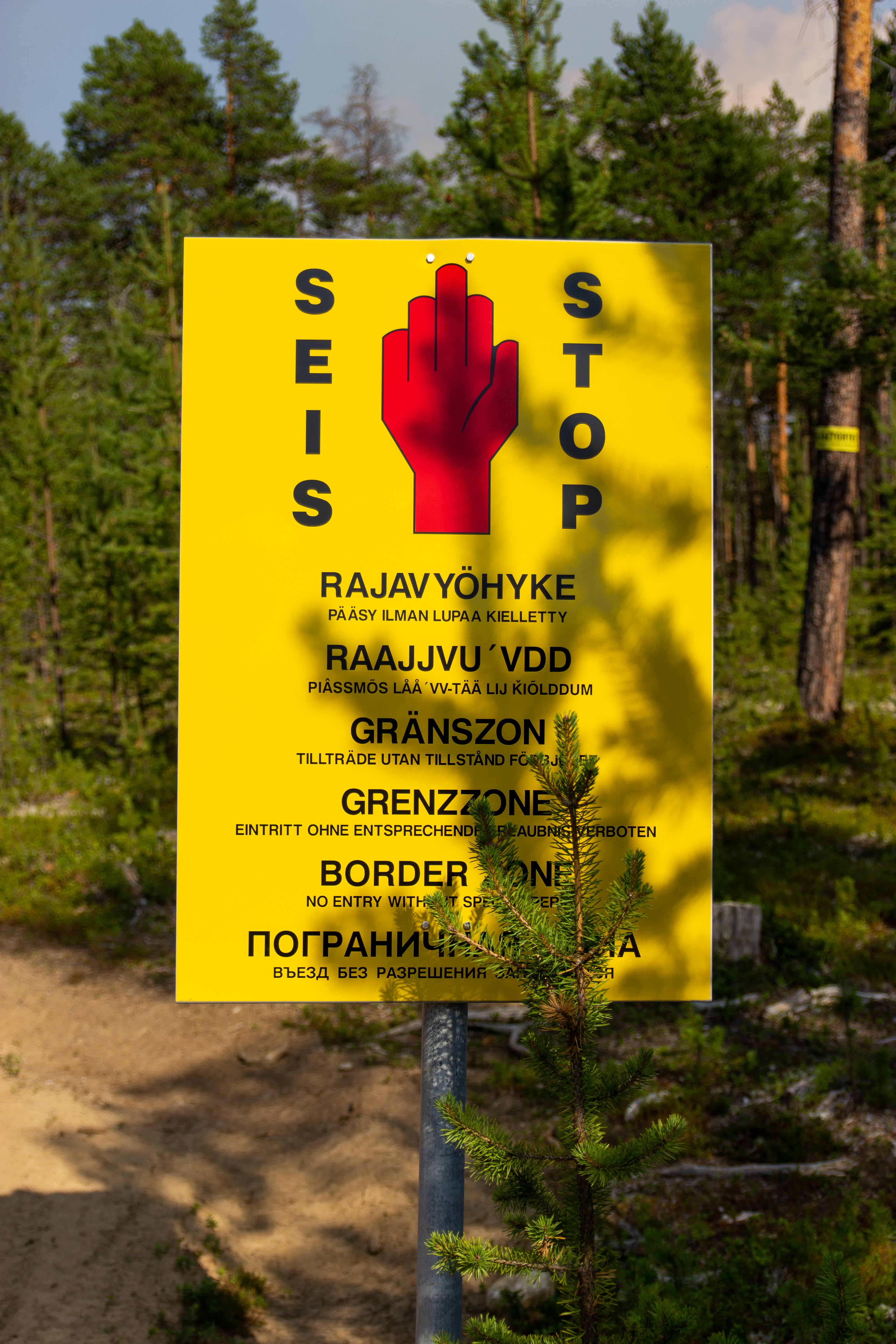 A border zone sign at the entrance to the Urho Kekkonen National Park in Sodankylä's Raja-Jooseppi. The text in the sign is in Finnish, (Skolt?) Sami, Swedish, German, English and Russian.